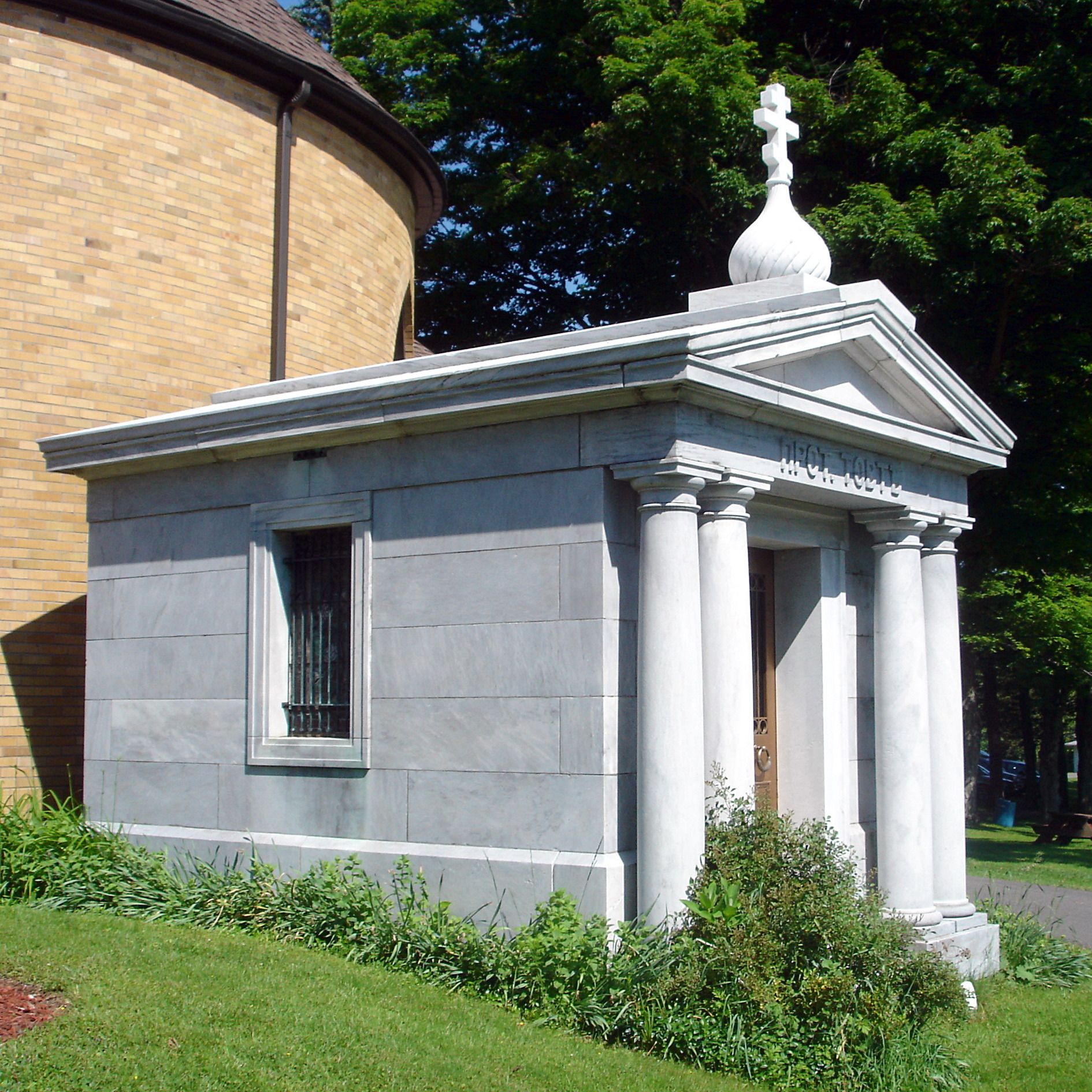 Shrine of St. Alexis Toth at the St. Tikhon's Orthodox Monastery (South Canaan, Pennsylvania).